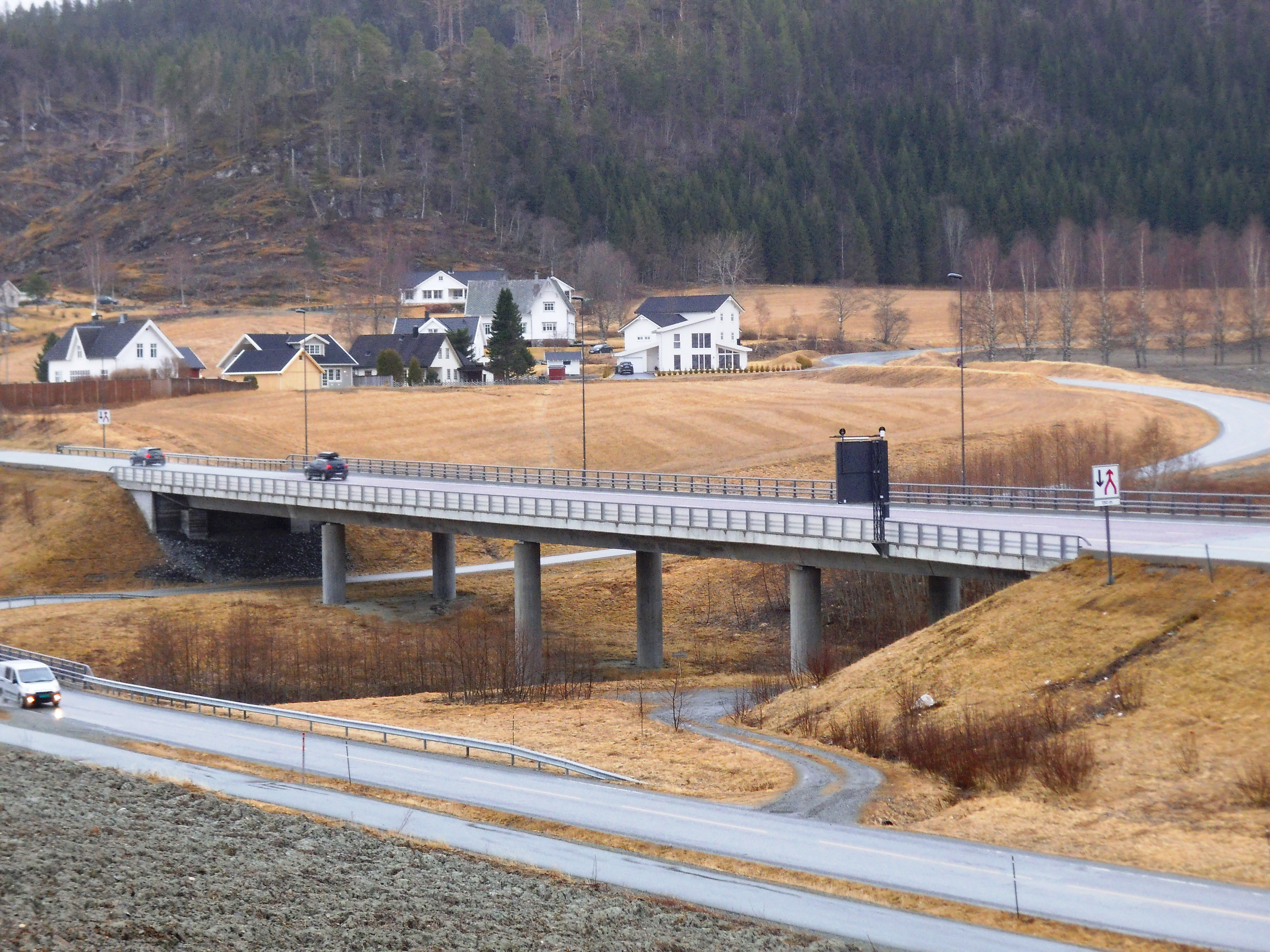 Rossvollbrua is a road bridge in Børsa, Skaun, Norway. Built around 2005.